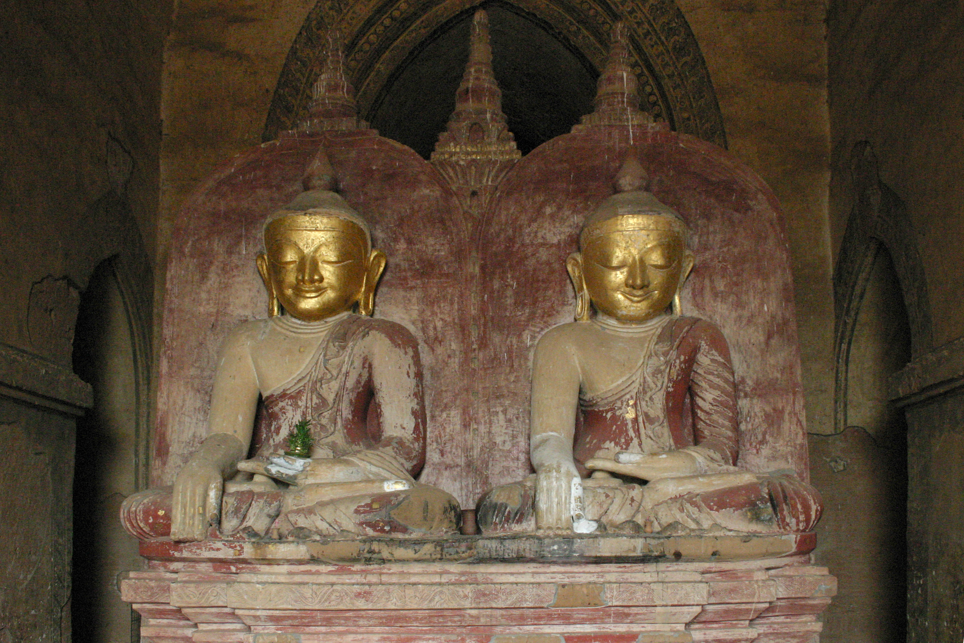 Dhammayangyi temple, Bagan, Myanmar. Buddha-Statues; possibly actual Buddha Gautama and coming fifth Buddha Metteya.